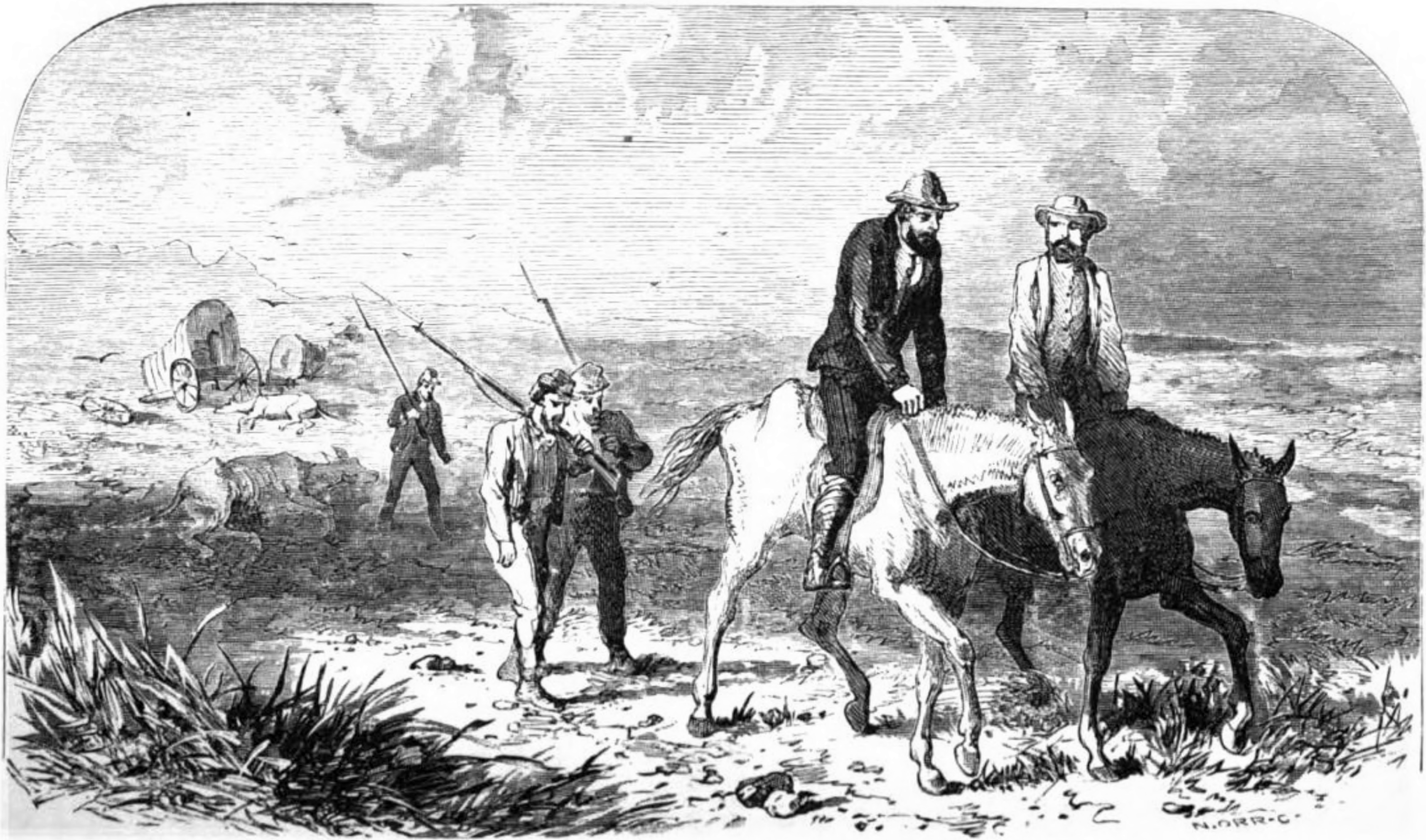 Governor Lane and Marshal Meek enroute to Oregon